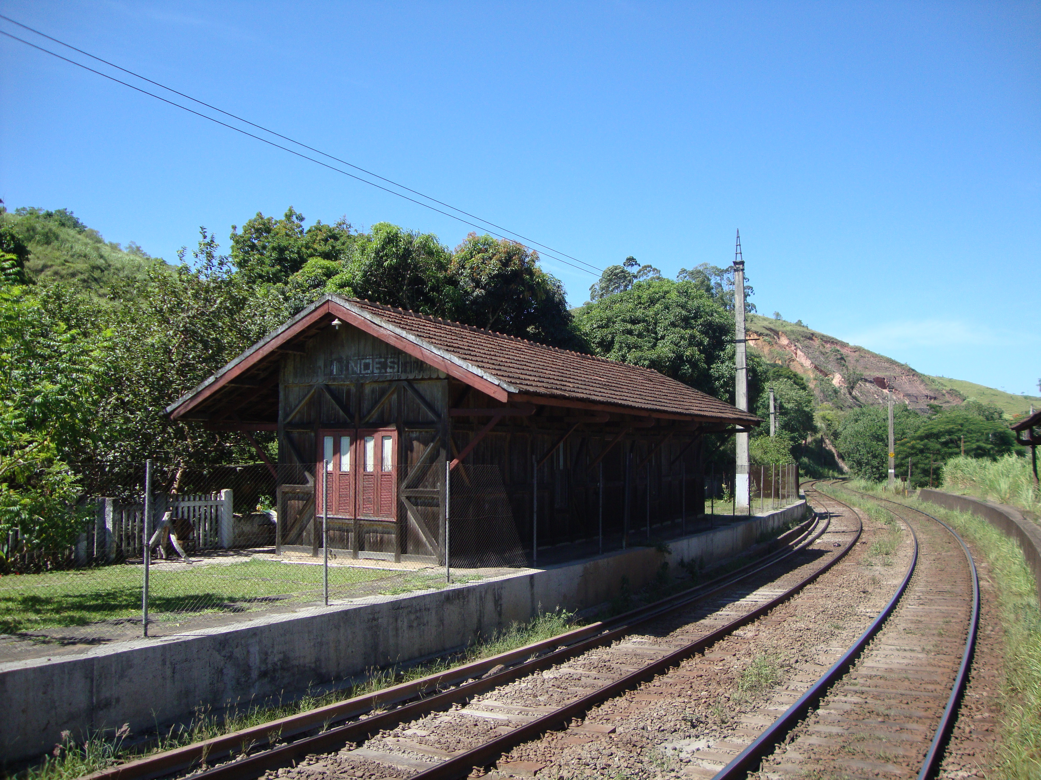 Mendes Railway Station, Mendes municipalty, Rio de Janeiro State, Brasil